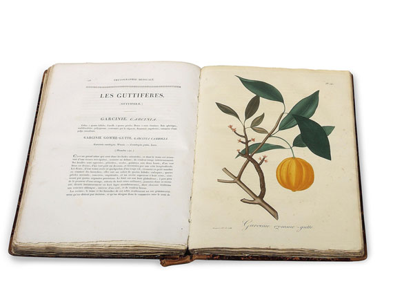 "Phytographie médicale", 'ornée de figures coloriées de grandeur naturelle, ou l'on expose l'histoire des poisons tirés du règne végétal'. Paris, Didot 1821(-24). Copper engravings by Edouard Hocquart (1787-1870). The author Joseph R. Roques (1772-1850) was a physician in Montpellier and Paris and who had acquired a reputation for his excellent work in botany. The work depicts mainly flowering plants and some fungi, and deals extensively with phytotoxins. 180 engraved plates, printed in colour and finished by hand.